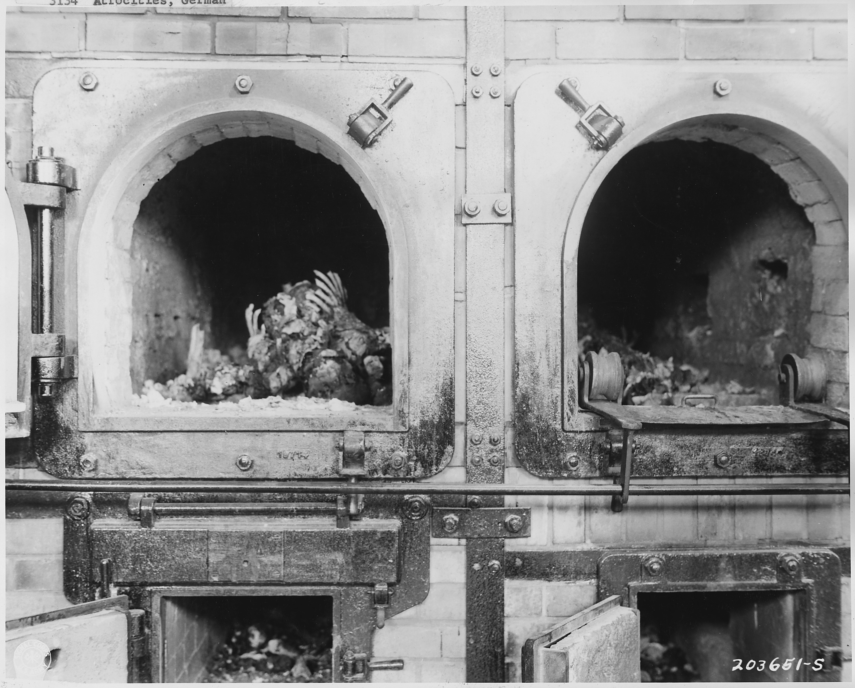 Scope and content: These charred bodies were found by U.S. troops of the 80th Division in furnace of horror chamber at the Buchenwald concentration camp near Jena, Germany. 4/16/45.